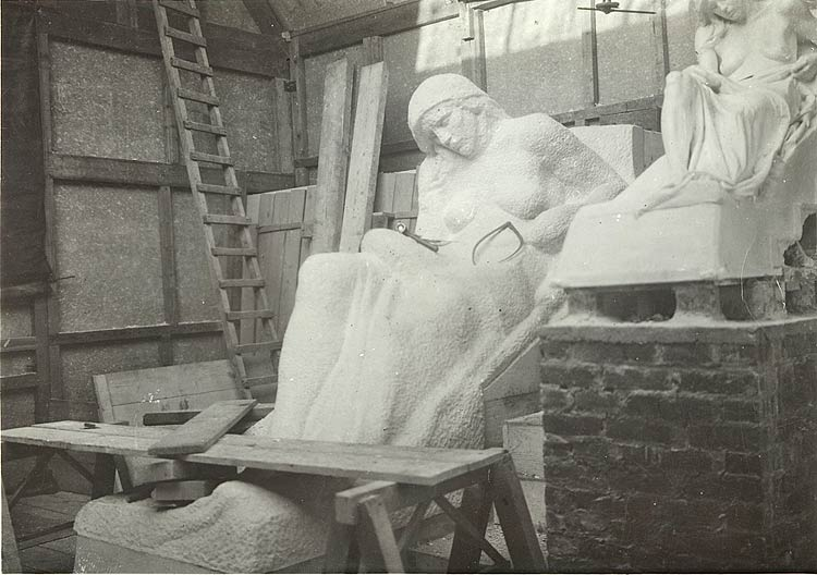 The half finished statue of the Female Mourner beside a scaled plaster model that had been created by Allward in his studio.